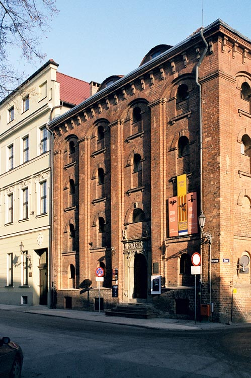 Eskens family house in Toruń, so-called Red Granary. Built in 15th century, rebuild in 16th and 19th cent.